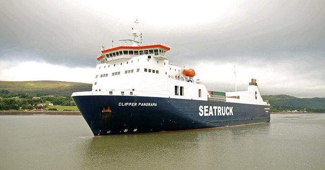 The "Clipper Panorama" at Warrenpoint IMO Number: 9372676 MMSI Number: 212392000 Callsign: 5BKX2 Length: 142 m Beam: 20 m